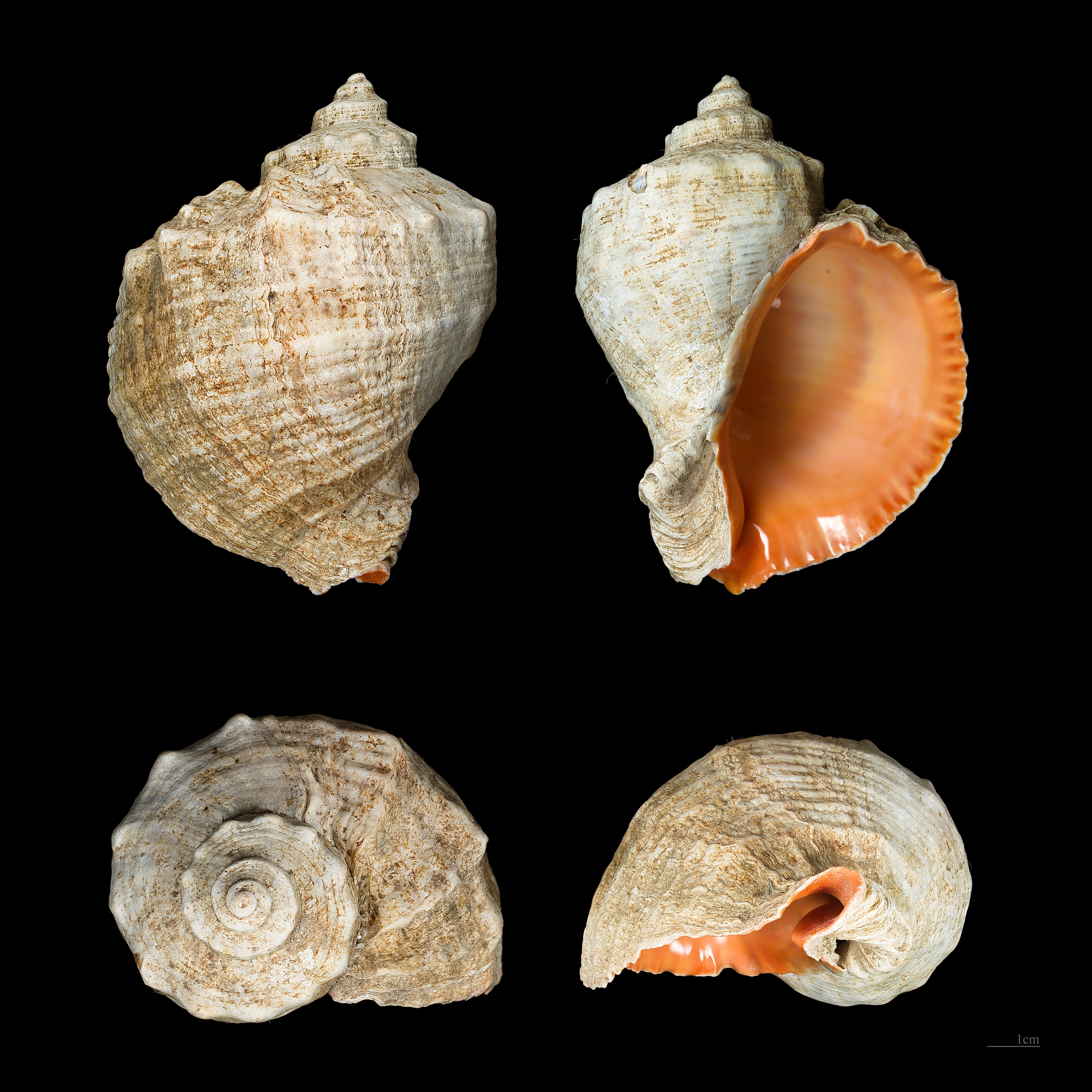 Veined rapa whelk - Four views of the same specimen. Former collection of George Chernilevsky.